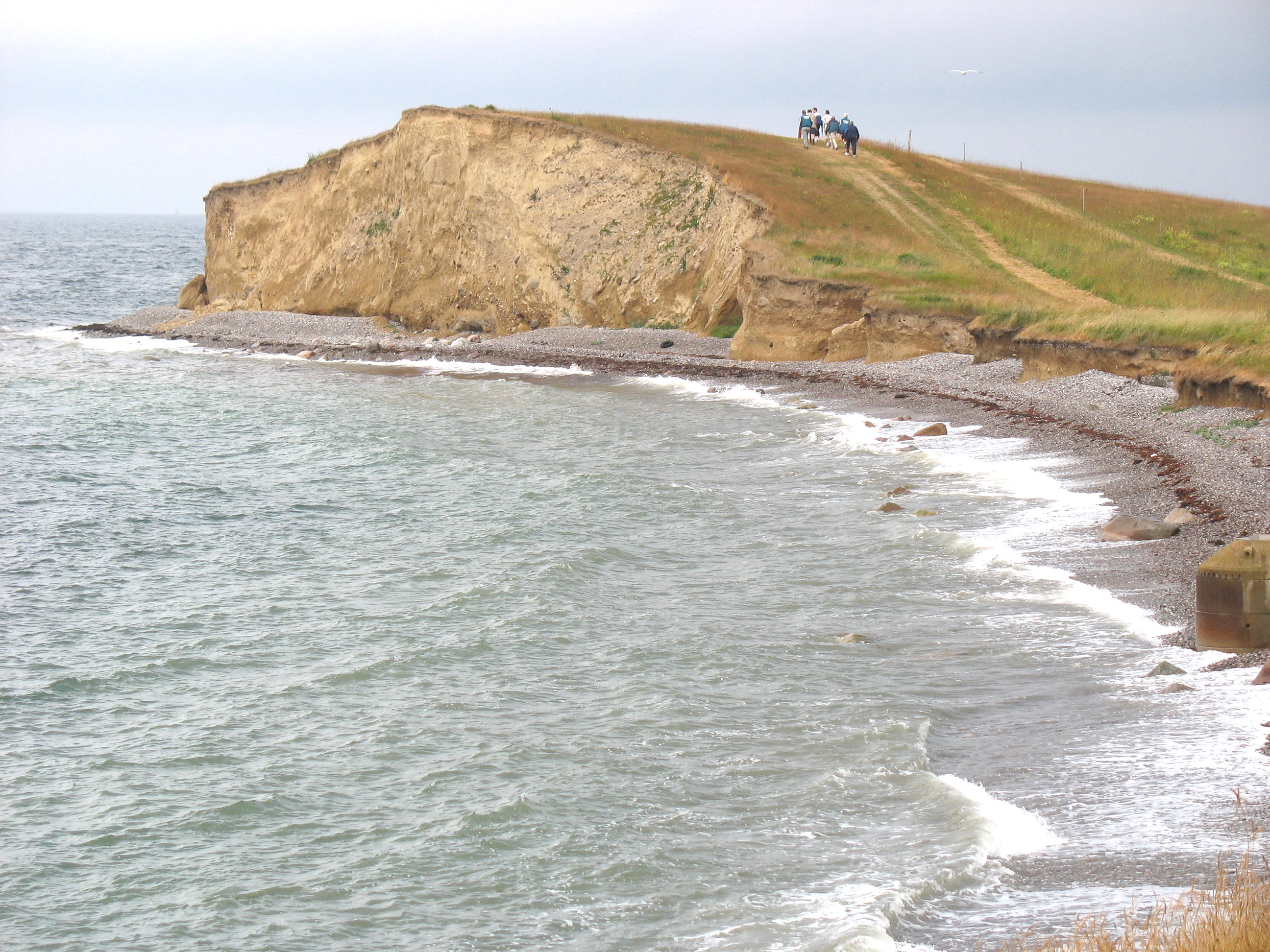 The cliff Gulstav Klint located near Dovns Klint at the southern end of the Danish island Langeland.